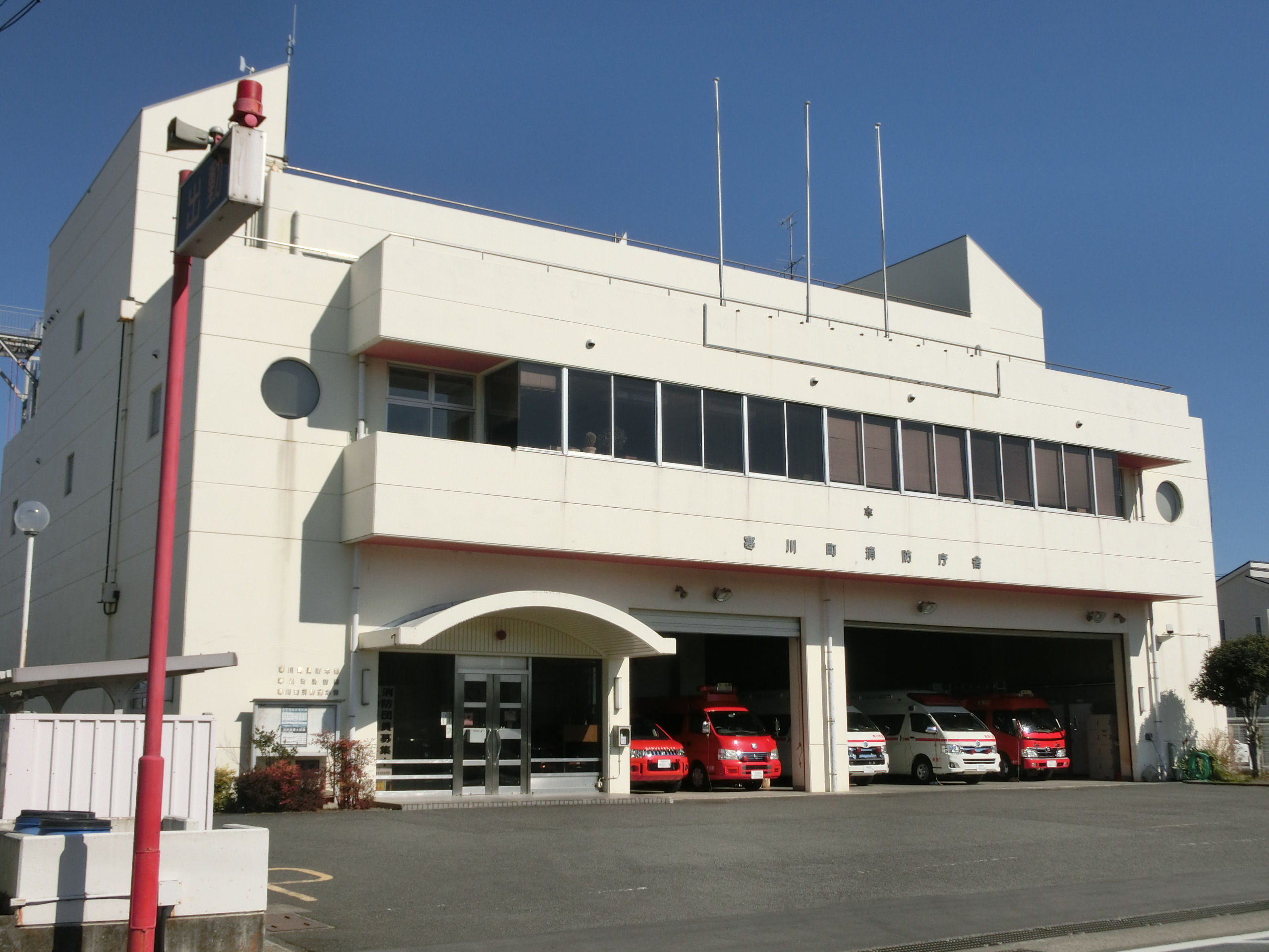 Samukawa Town Fire Department